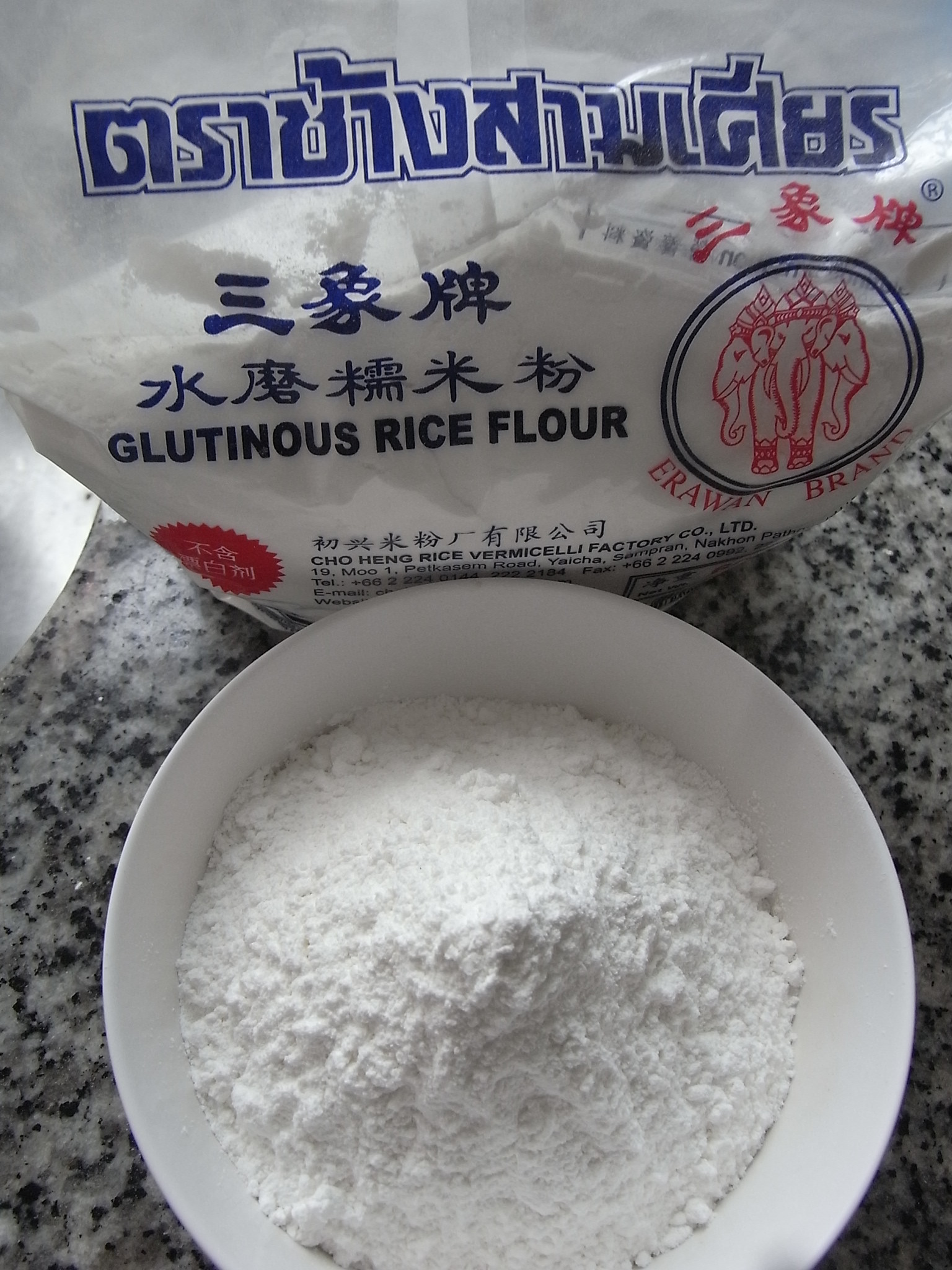 煎餅 材料 糯米粉